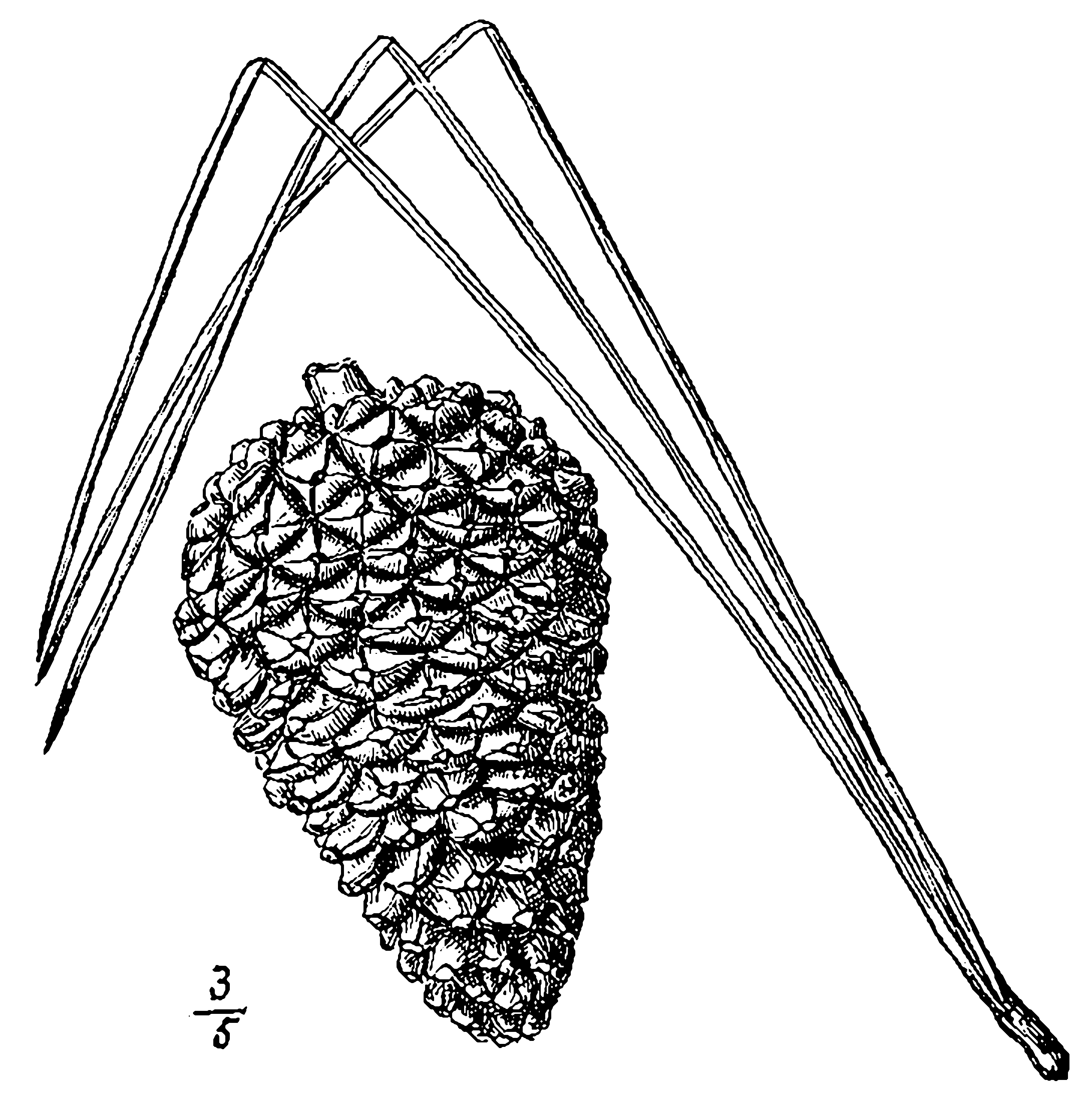 Pond Pine. Drawing.